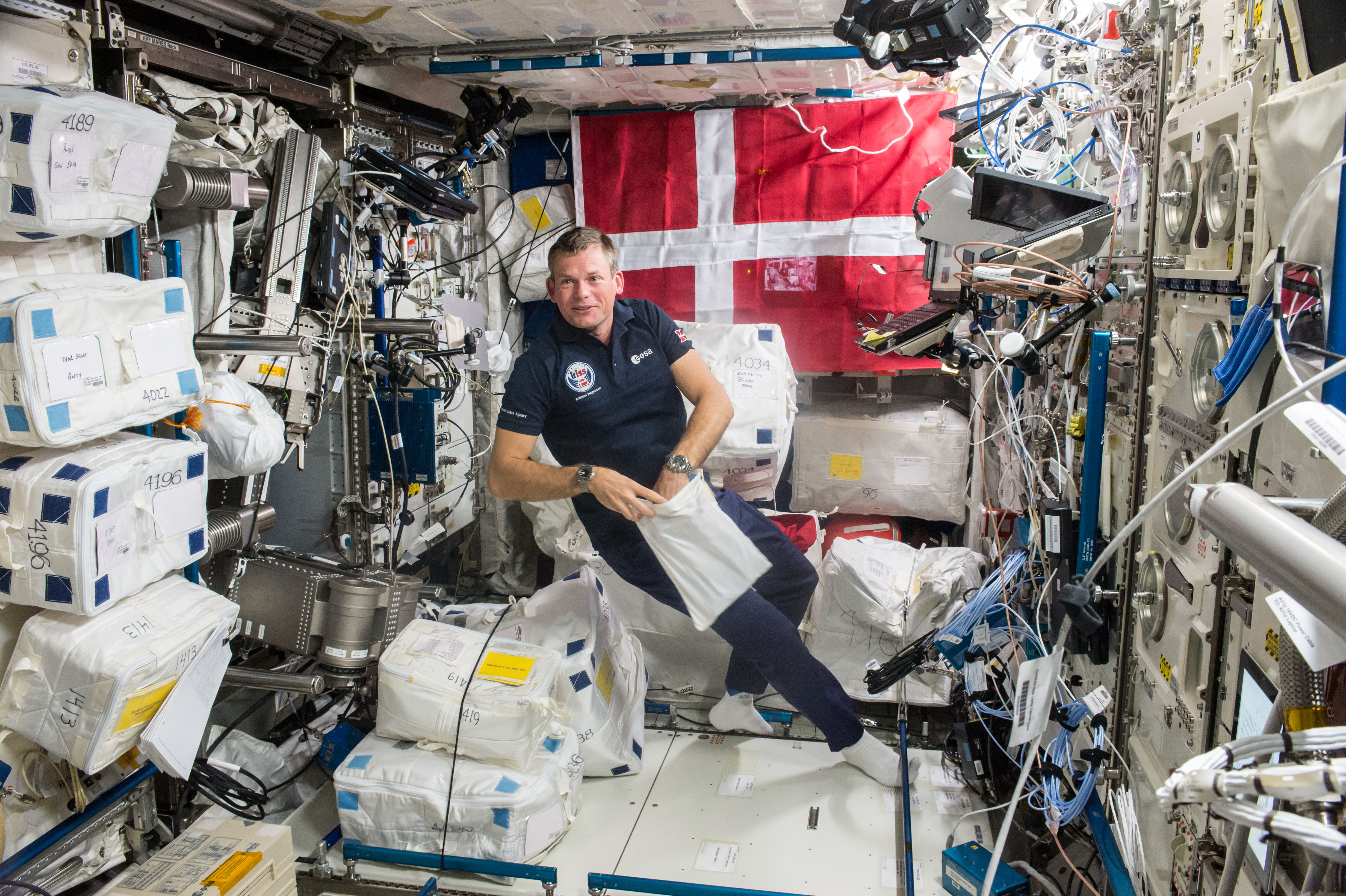 Danish/ESA astronaut Andreas Mogensen is seen working inside the European Columbus module. Mogensen lived and worked on the International Space Station during September 2015. This 10-day mission was Andreas's first spaceflight and the first ever by a Danish national.